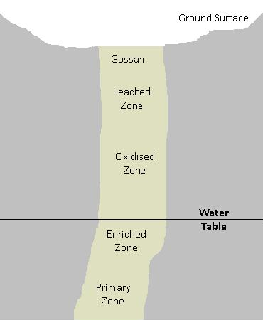 Diagram of a mineral vein showing zones of leaching and enrichment